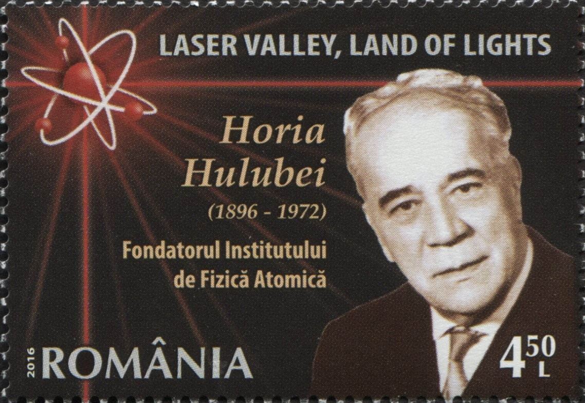 Beyond the Frontiers of knowledge - Laser Valley, Land of Lights - Horia Hulubei, creator of the Romanian school of atomic physics